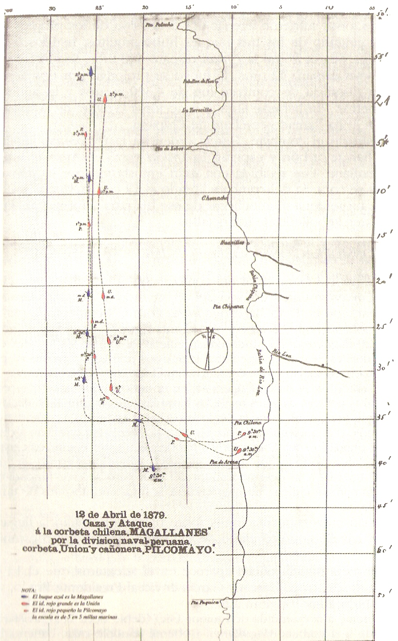 Sketh of the naval battle of Chipana. During the War of the Pacific, between Chile against Bolivia and Peru, the first naval battle was on Chipana, between the peruvian corvette Union and the peruvian gunboat Pilcomayo against the chilean gunboat Magallanes, on Saturday 12th, april of 1879.